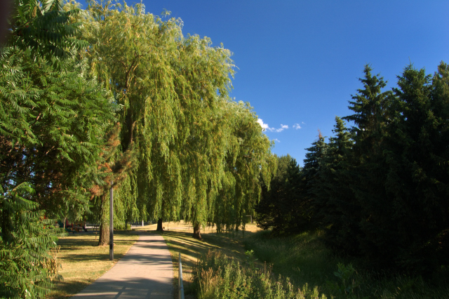 Conley Park. One of the many parks found in Thornhill